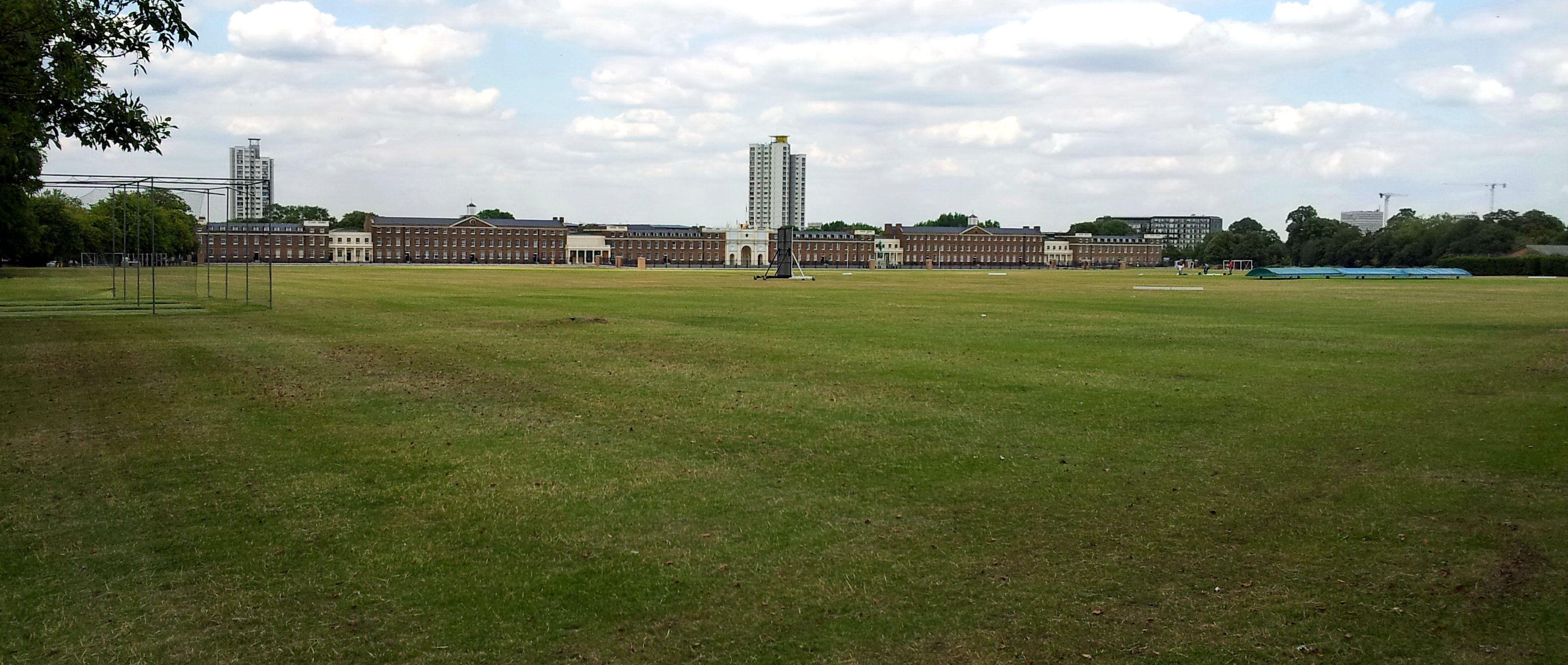 View from the south of Barrack Field and the Royal Artillery Barracks, Woolwich, Southeast London.